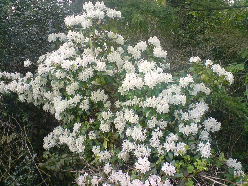 Rhododendron 'Cunningham's White' flowers, closeup; at Kew Gardens, London, England.